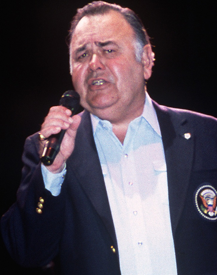 Entertainer Jonathan Winters performs in a United Service Organizations (USO) show in the Pensacola Civic Center during the celebration of the 75th anniversary of naval aviation. (Released to Public)